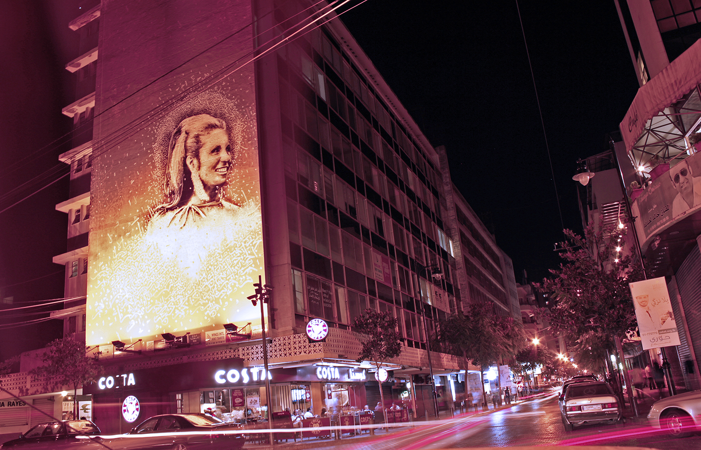 This mural depicts the Assaf building, known as the Horseshoe building in Hamra street in Beirut. The building is covered since early June with a mural by Yazan Halwani depicting Lebanese singer Sabah.